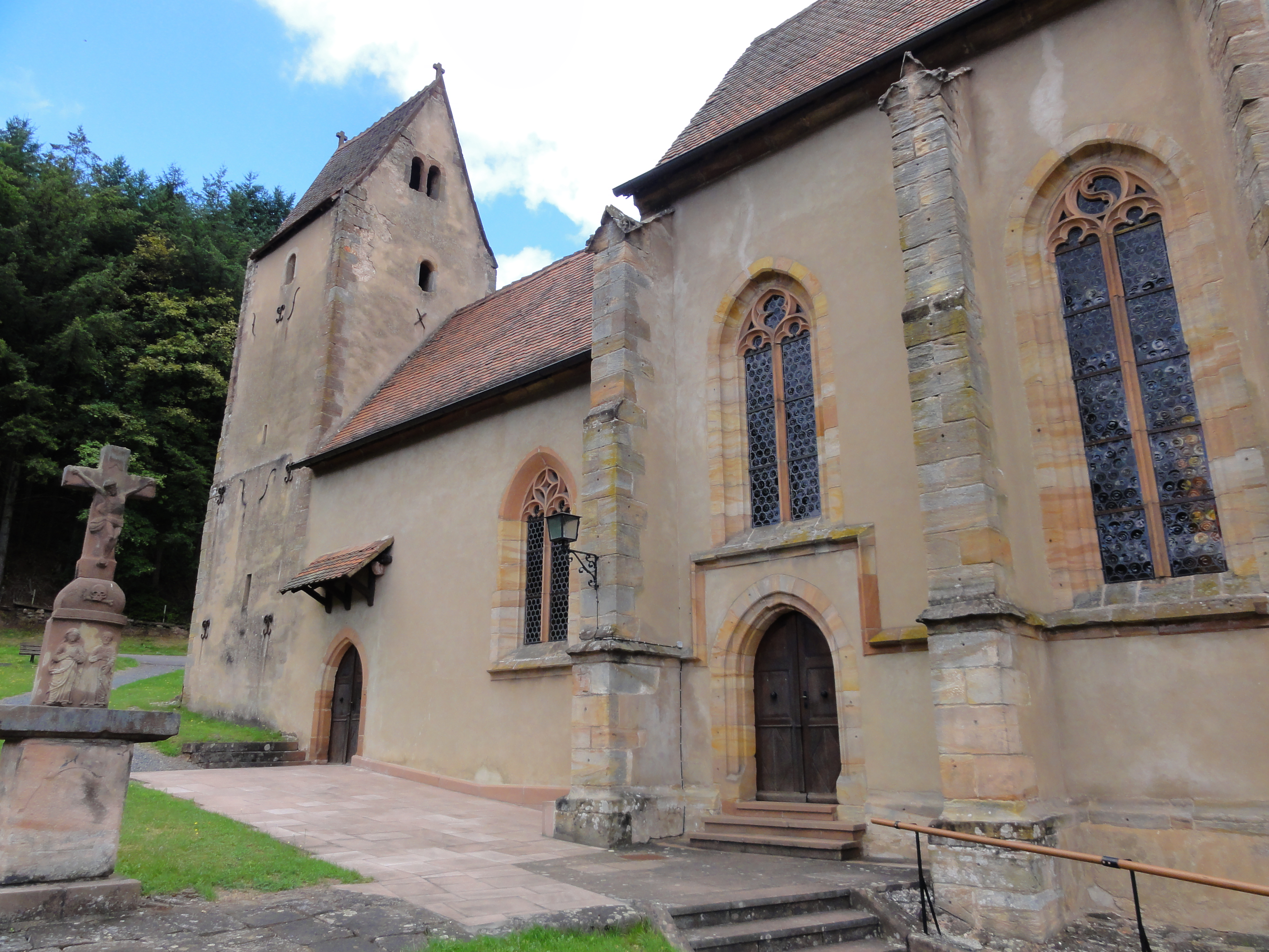 Alsace, Bas-Rhin, Reipertswiller, Église simultanée Saint-Jacques-le-Majeur: It is indexed in the Base Mérimée, a database of architectural heritage maintained by the French Ministry of Culture, under the references PA00084900 and IA67006478 .